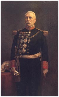 General Porfirio Diaz (1830-1915).The photograph has been flopped. Note that the military honors are on the wrong side of the uniform.